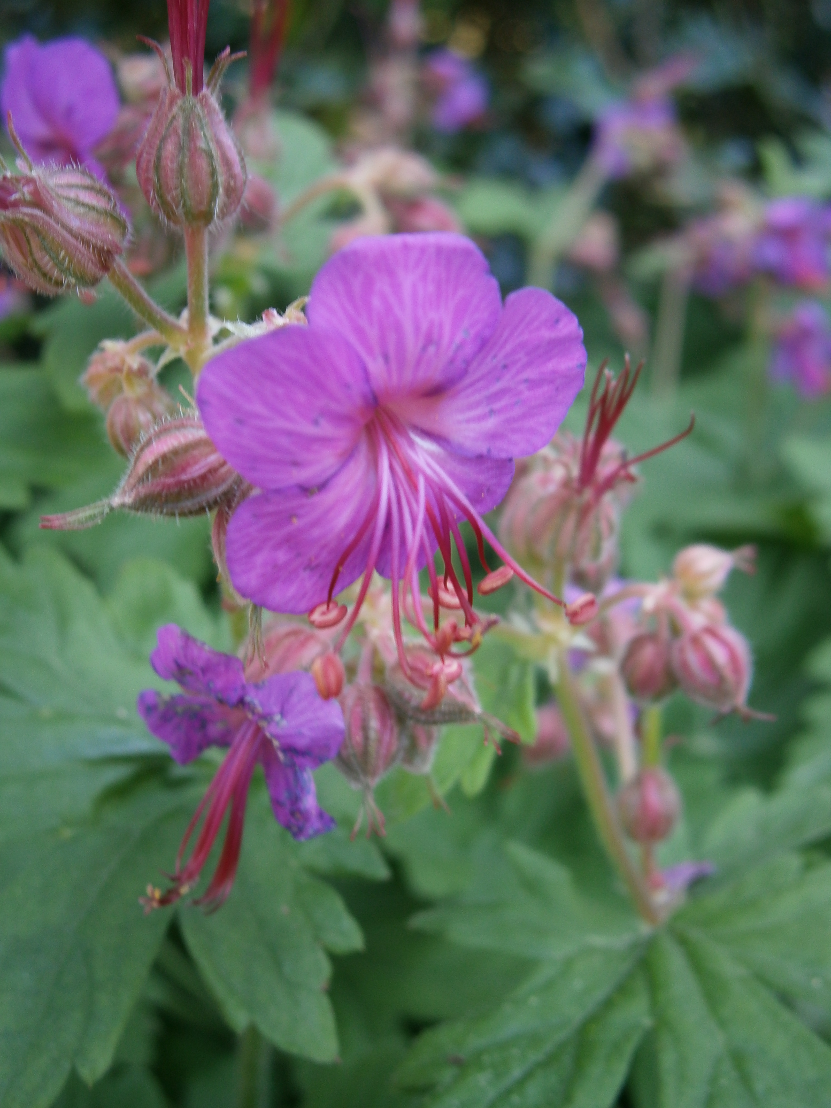 Geranium macrorrhizum - close-up flower